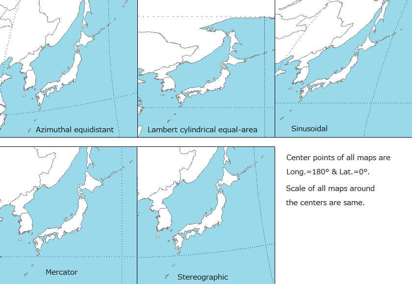 This compares 5 map projections apart from the center of each projection. The centers of all projections are Long=180deg, Lat=0degree. Scales of all maps around the centers of projections are same.